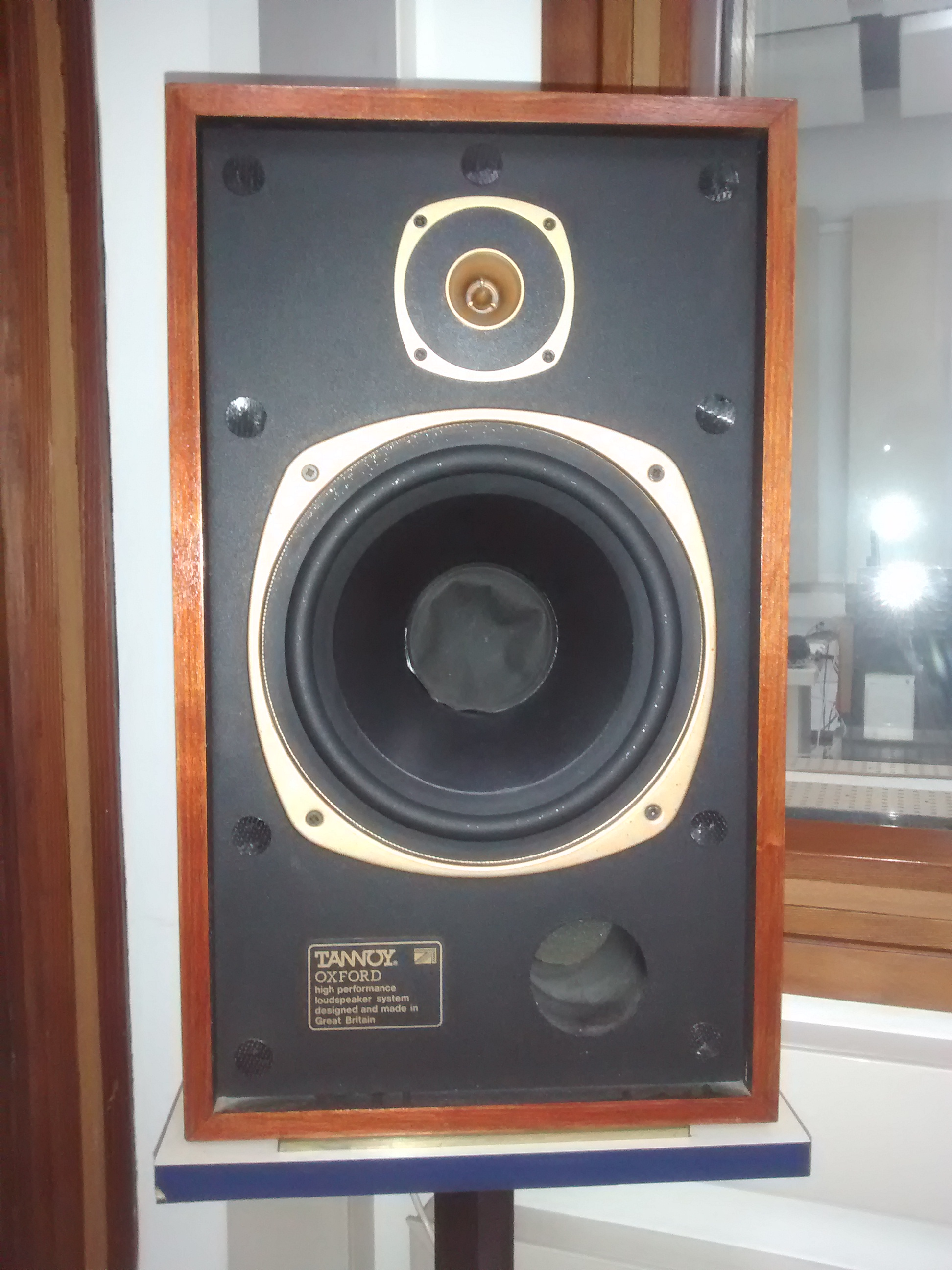 Studios and facilities of Kol Israel in Romema, Jerusalem 2016